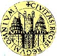 Seal of Baldwin III of Jerusalem, Found in Tate, The Crusaders, Warriors of God, p. 65.